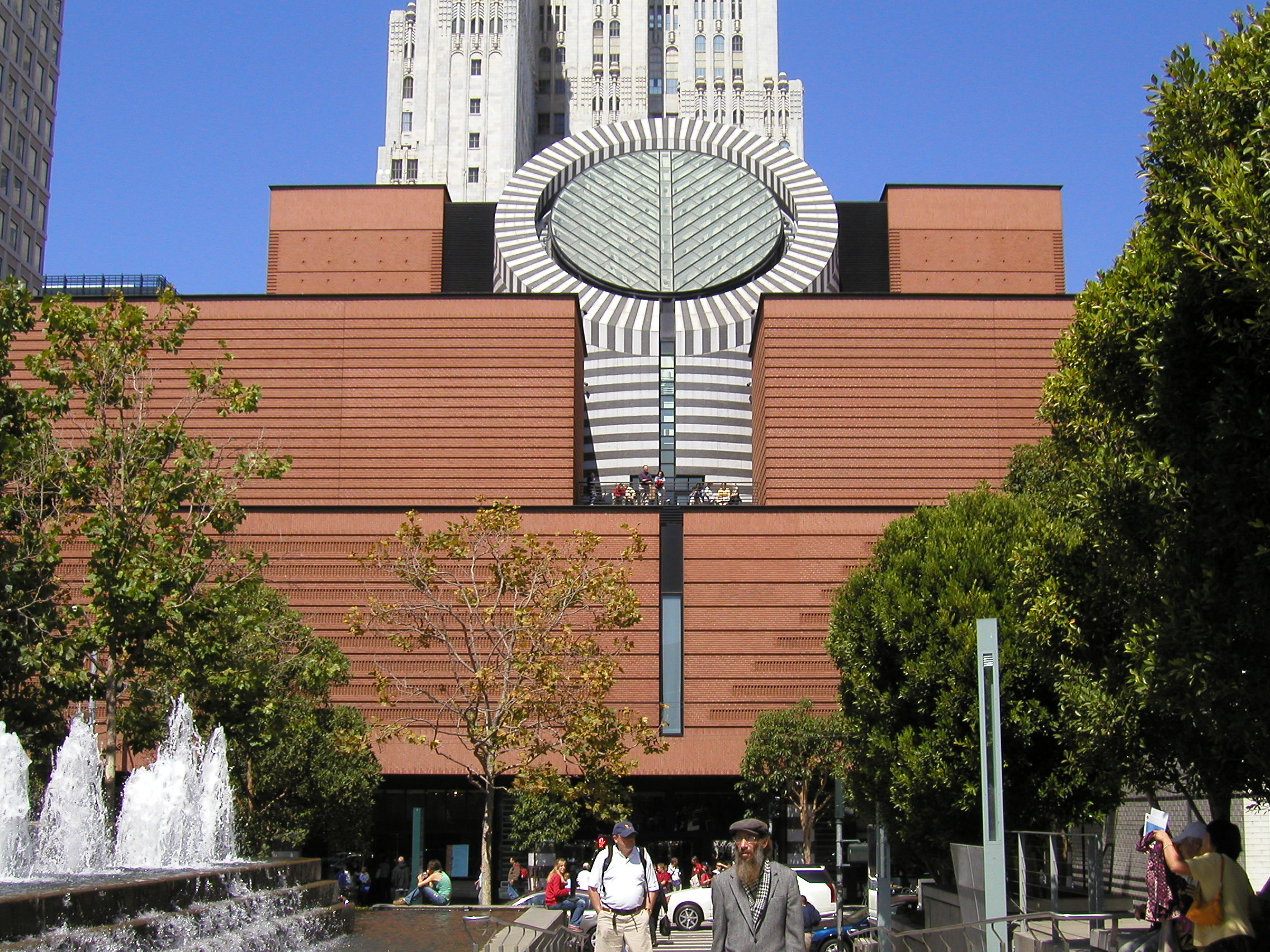 Full View of the MOMA in San Francisco